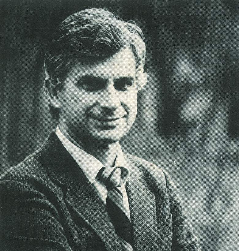 Anatoliy Solovianenko as depicted in Soviet Life, October 1984